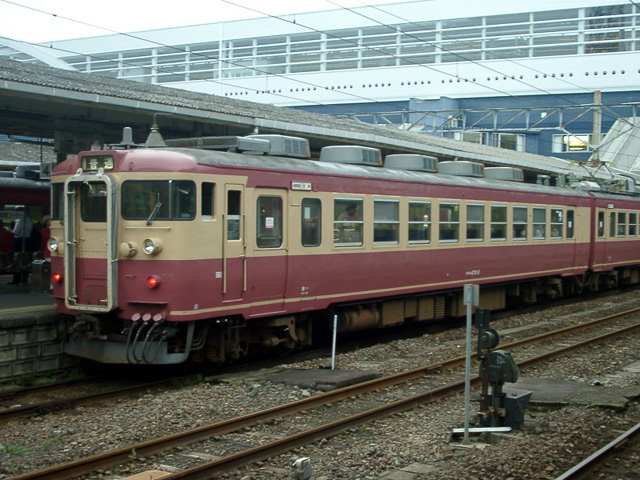 Series 475 with original clasic color at Nishi-Kagoshima Sta., Kagoshima city, Japan.